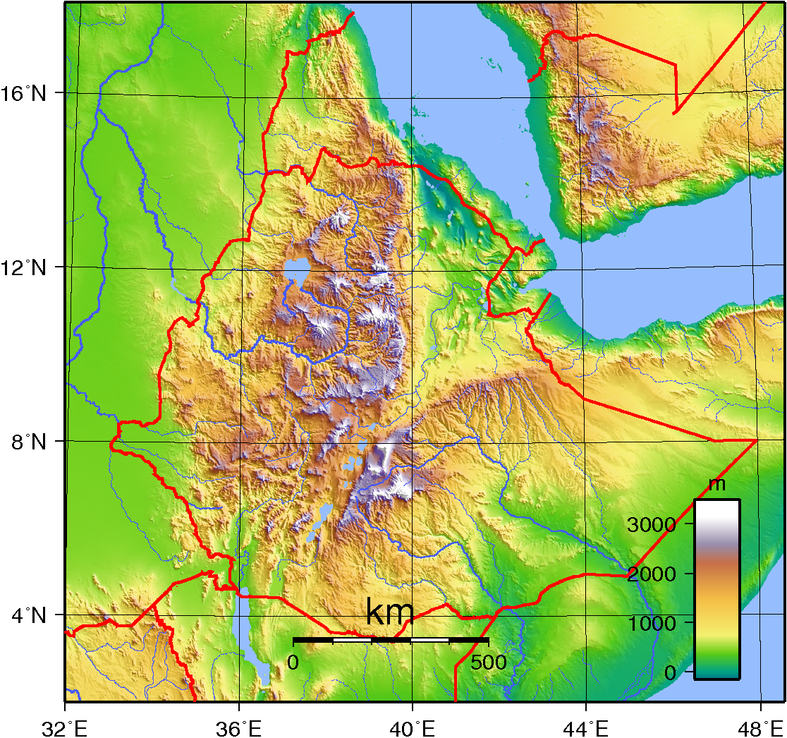 Topographic map of Ethiopia. Created with GMT from public domain GLOBE data.